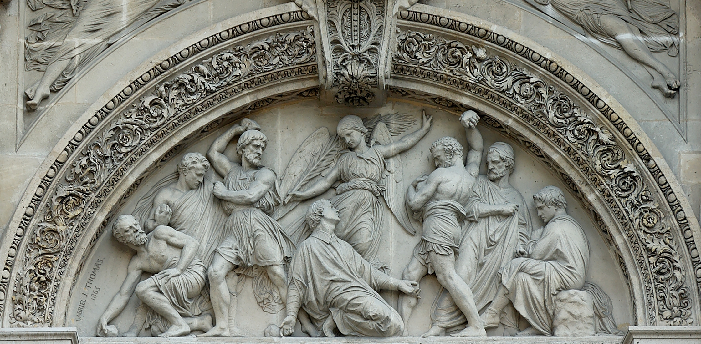 The stoning of St. Stephen by Gabriel-Jules Thomas (1824–1905), 1863. Lunette of the main gate of the church Saint-Etienne du Mont ("St. Stephen in the Mountain"), in Paris.